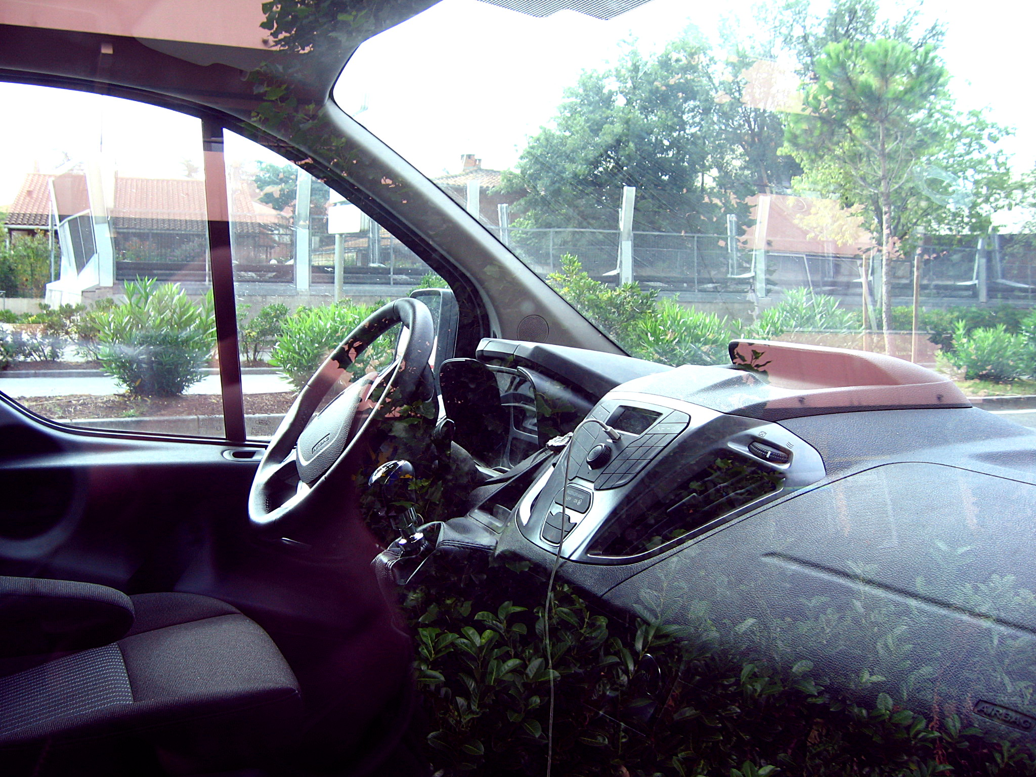 2014 Ford Transit Custom dashboard.